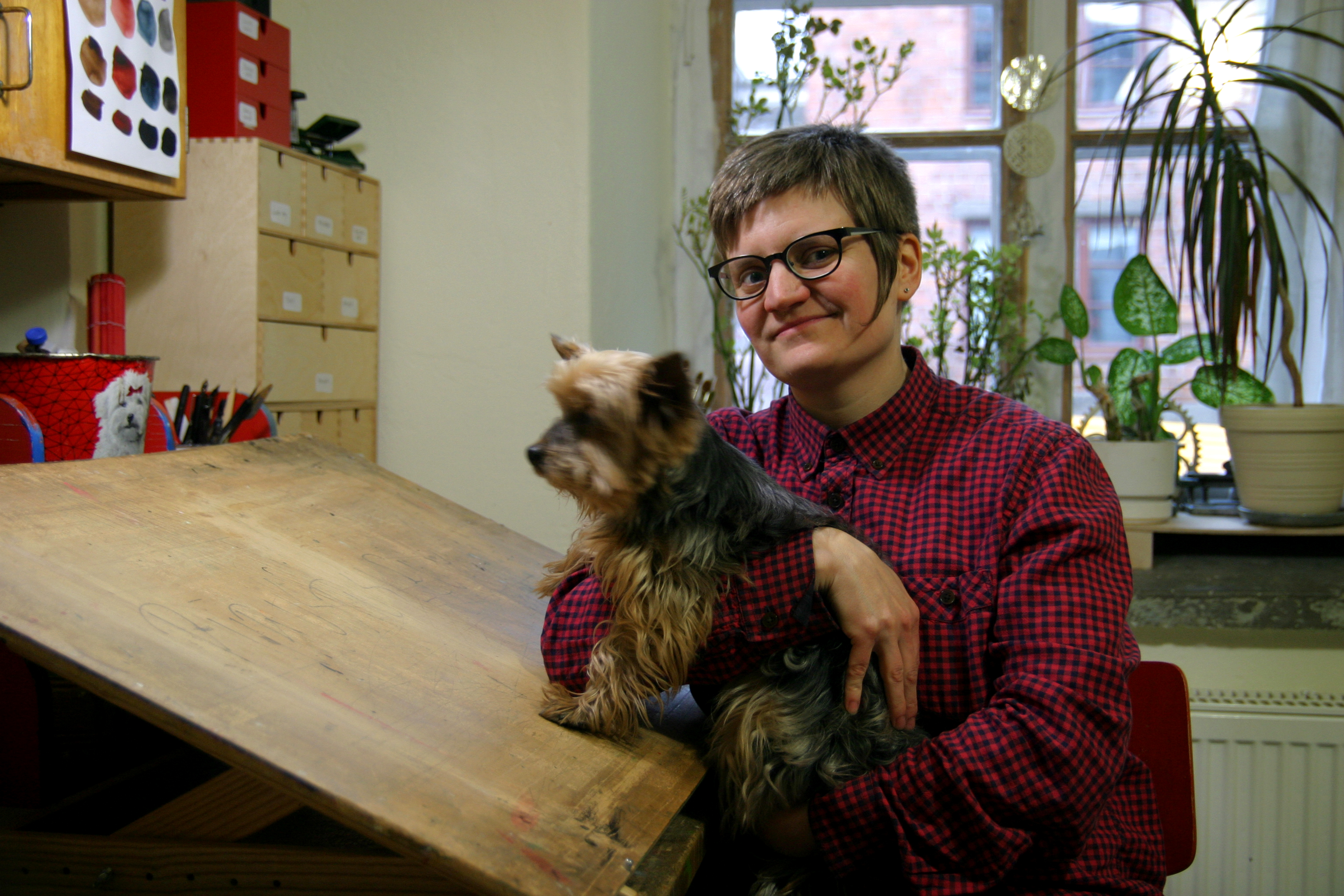 Tiitu Takalo, the graphic novel artist, at her studio in Tampere, Finland.